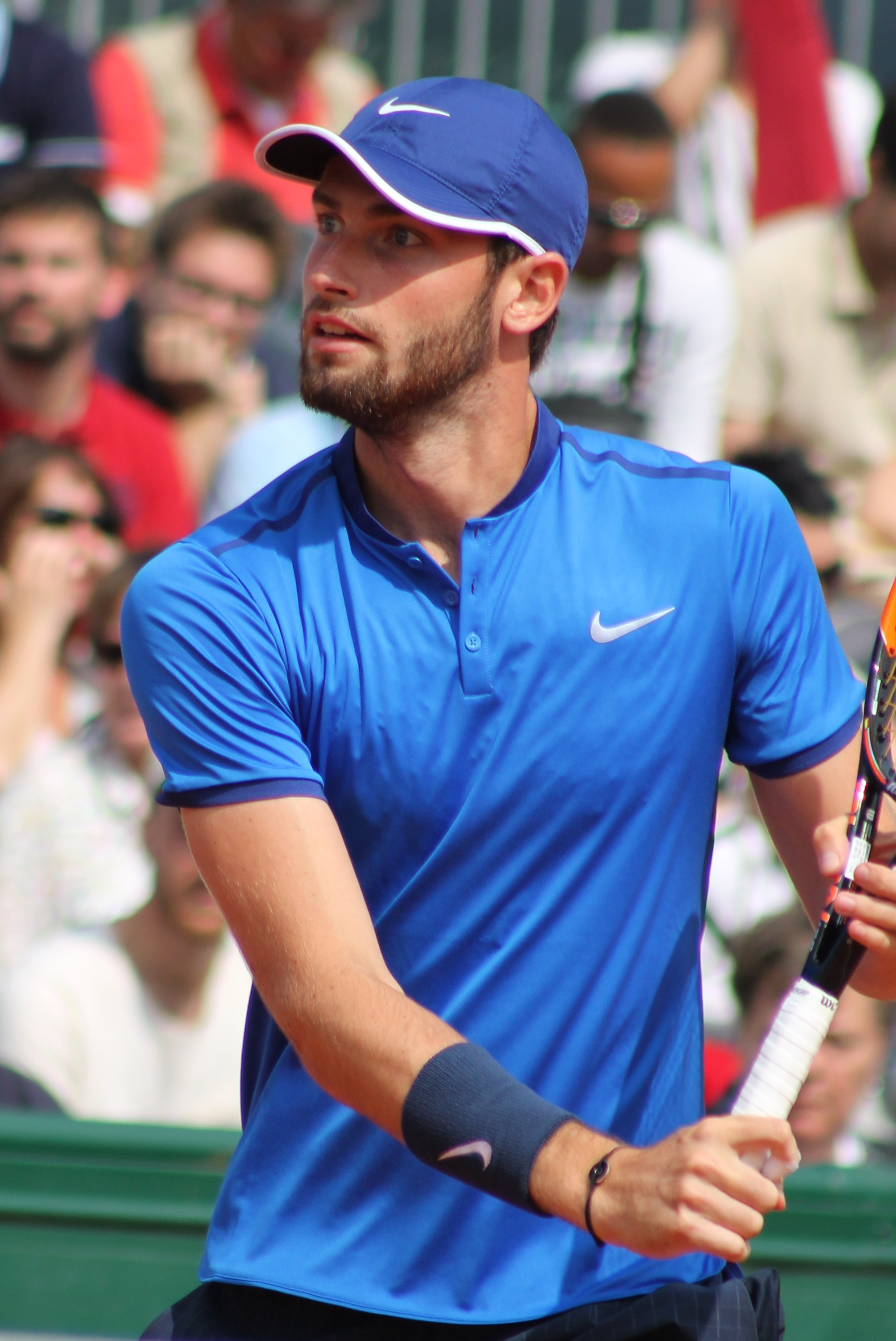 Halys RG16 (3)